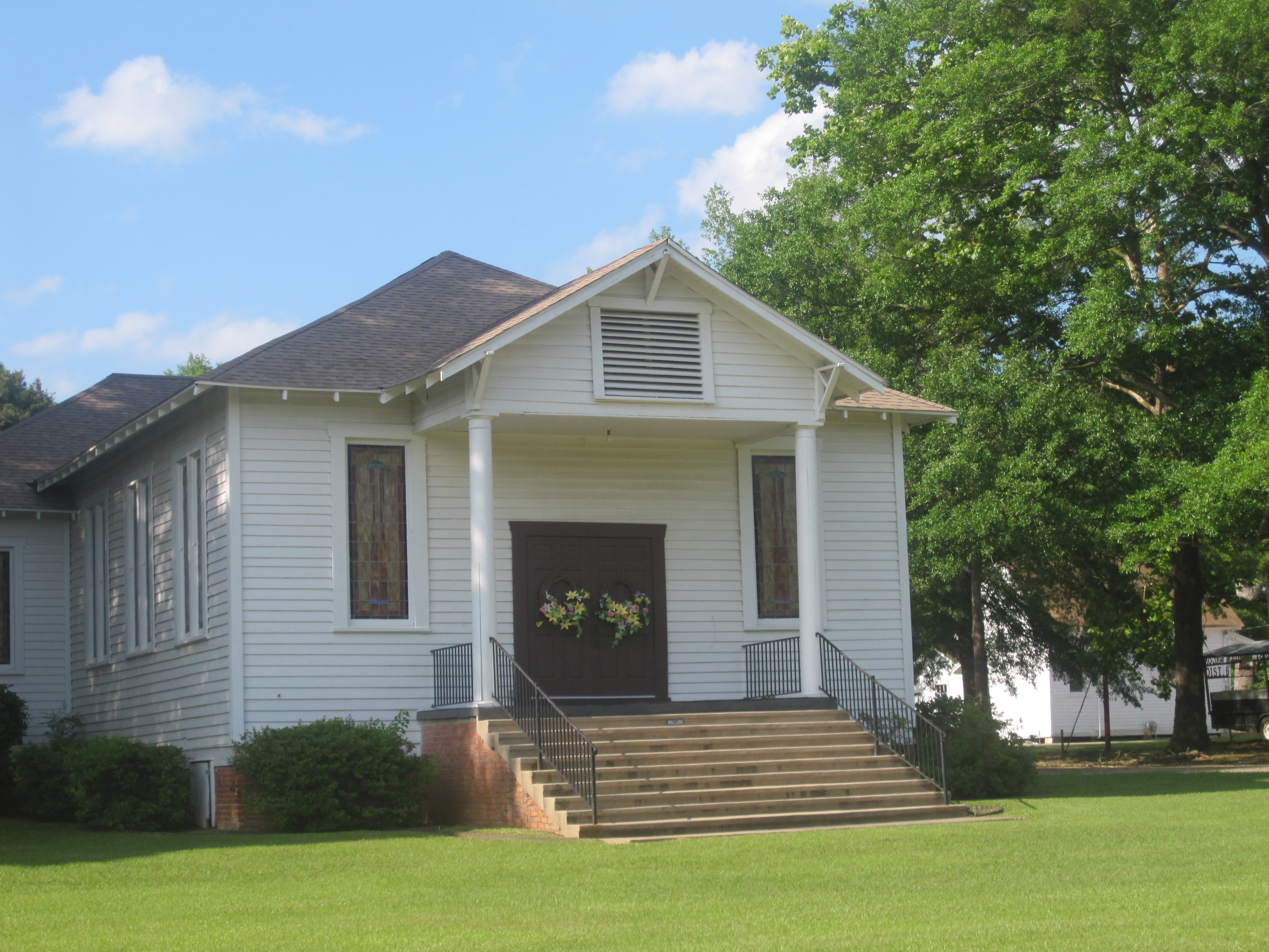 I took photo with Canon camera.